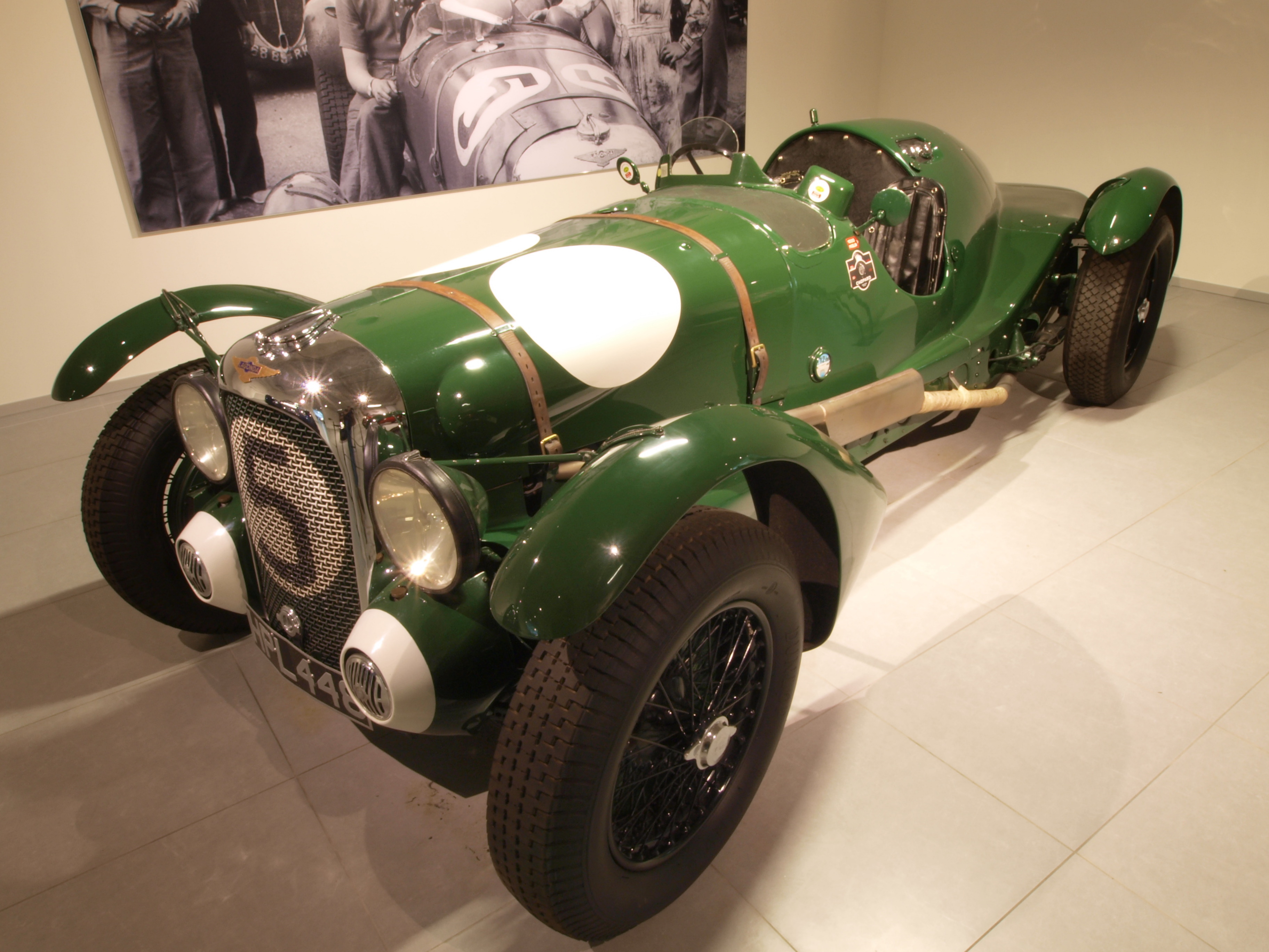 Photographed at the Louwman museum / Louwman Collection, The Netherlands.